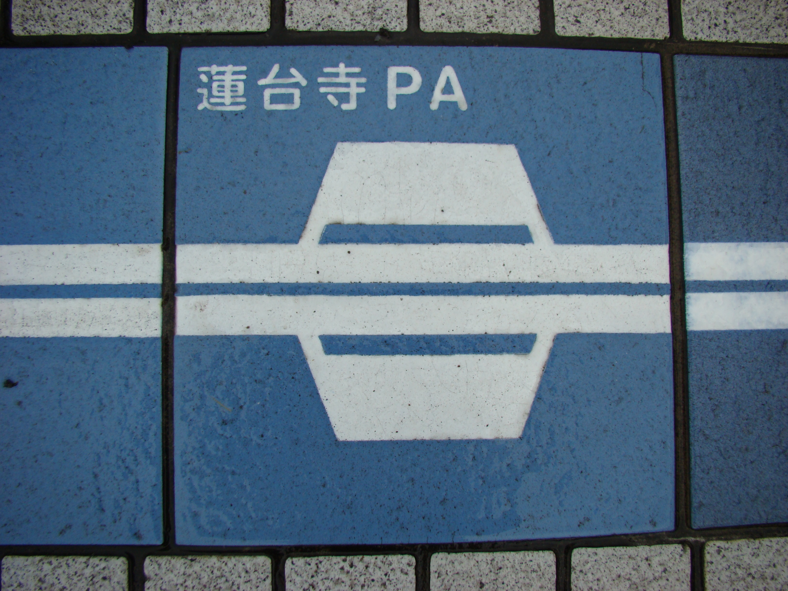 The tile which designed a shape of the Rendaiji Parking Area（Hokuriku Expressway）（There is this tile in Hokuriku Expressway Nadachi-Tanihama Service Area.）. Place - Chayagahara,Joetsu City,Niigata Prefecture,Japan Date - August 9, 2009 Format - JPEG, 3264x2448pixel, 24bit colors. Photographer - NALA Wiki (talk)